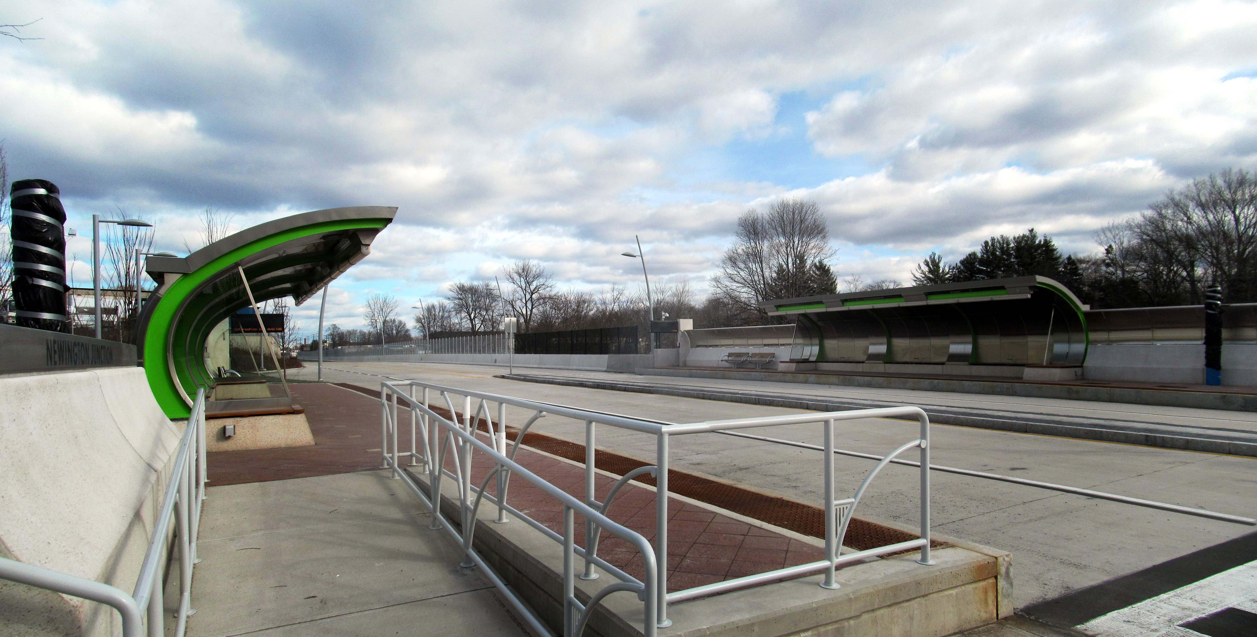 Newington Junction station on the CTfastrak busway under construction in December 2014